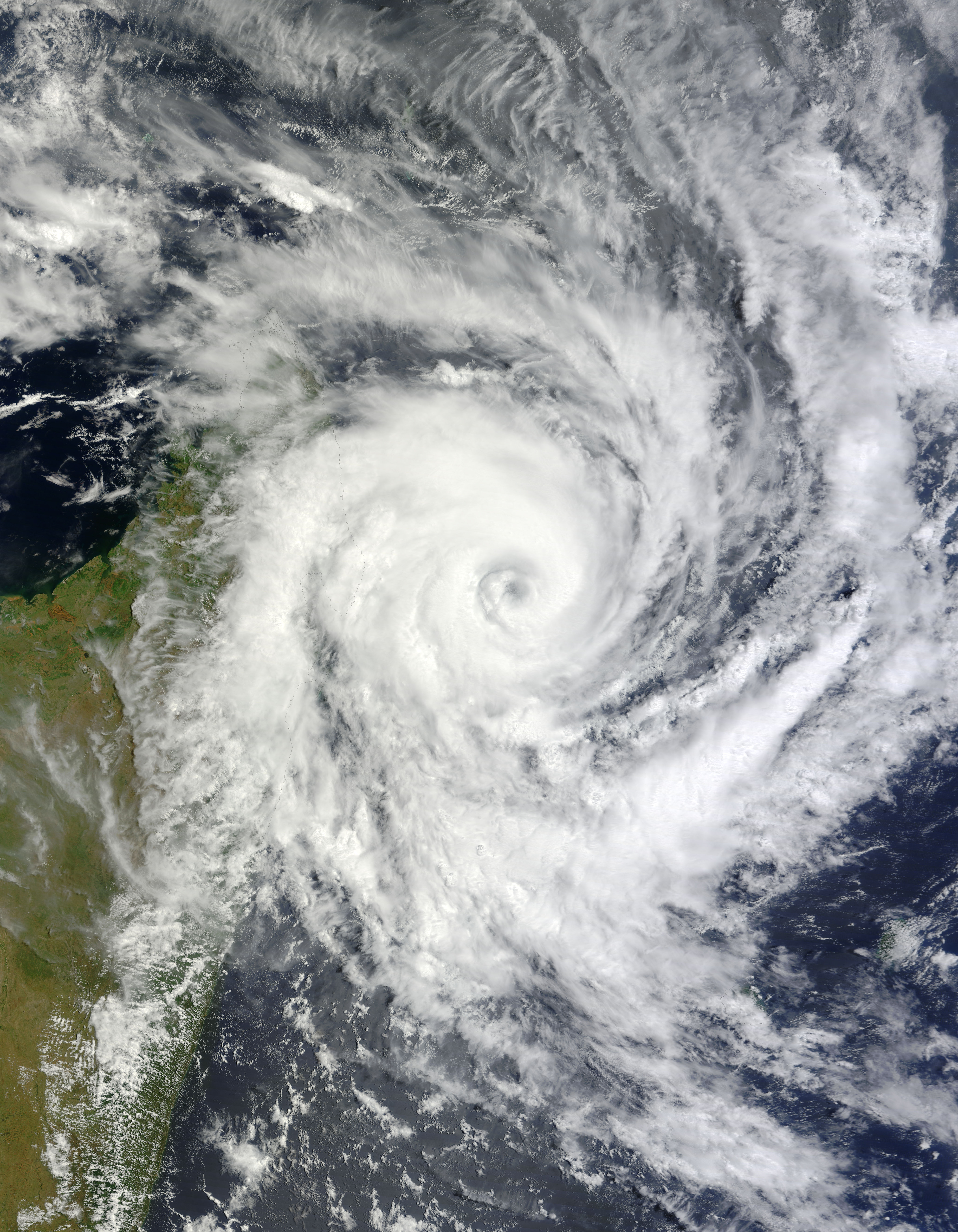 Tropical Cyclone Bingiza, as seen on February 13, 2011.